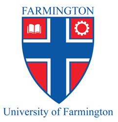 Logo of the University of Farmington scam